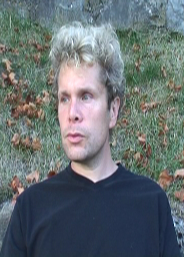 Nick Peterson (portrait)